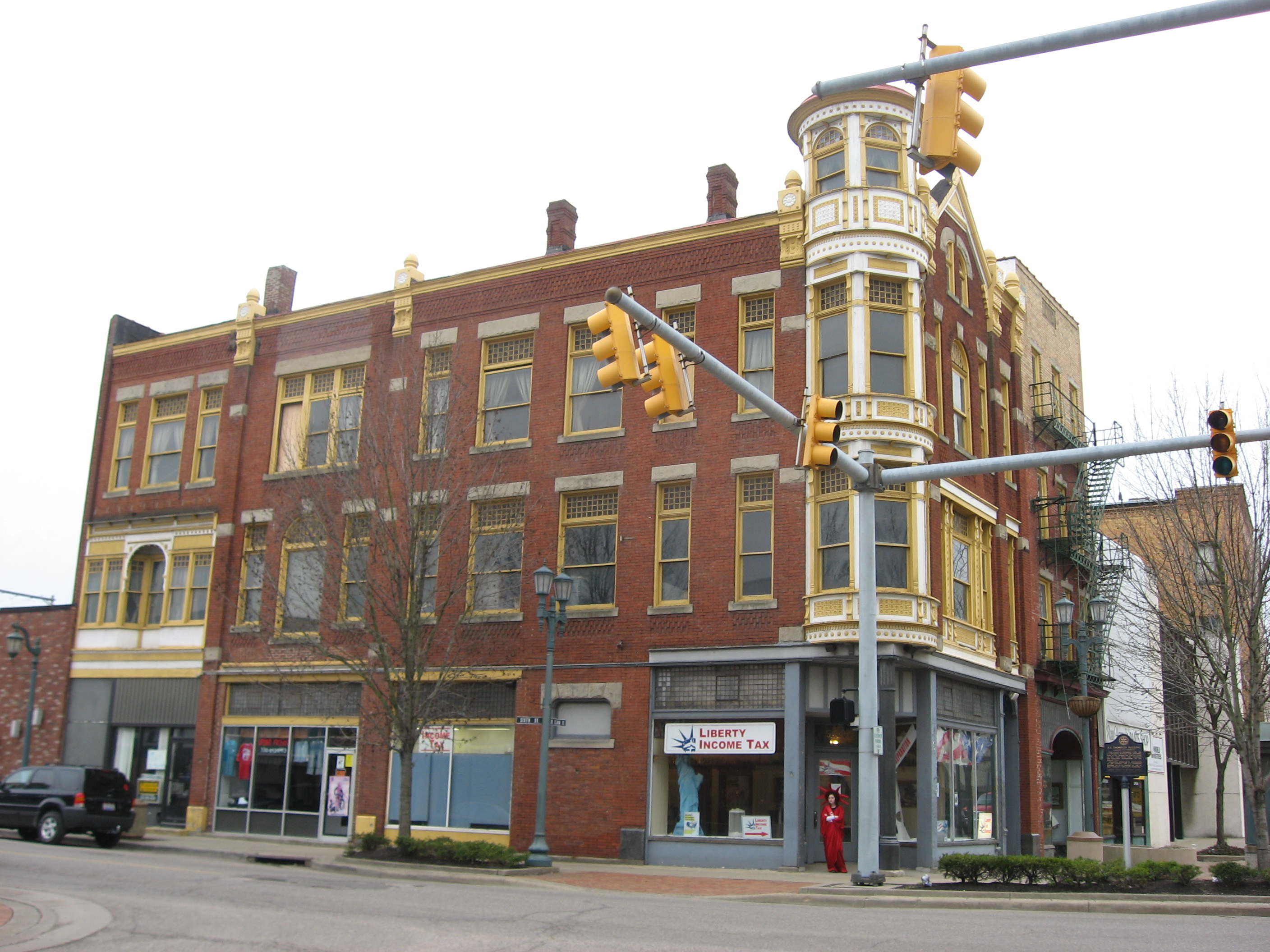 A building in the Diamond Historic District, located at the intersection of Market and Sixth Streets in downtown East Liverpool, Ohio, United States. The district is listed on the National Register of Historic Places.